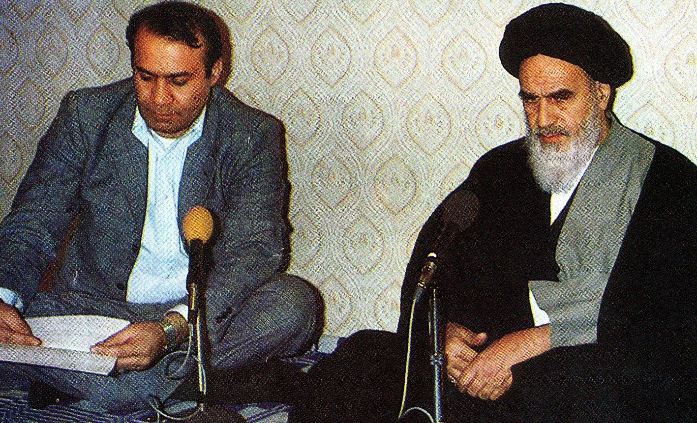 Ruhollah Khomeini during a press conference with Sadegh Ghotbzadeh as simultaneous interpreter, Qom - 1979